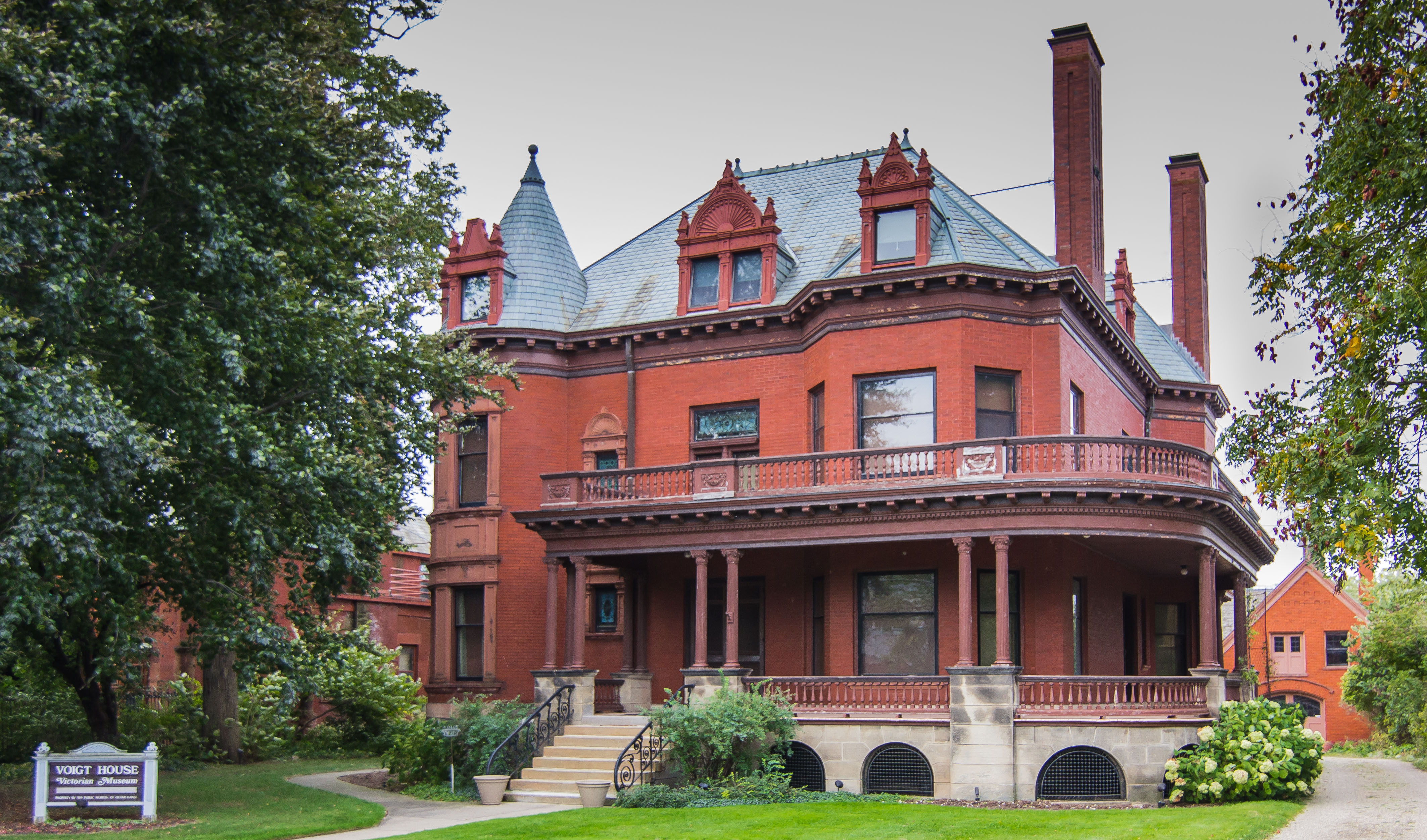 Voight House